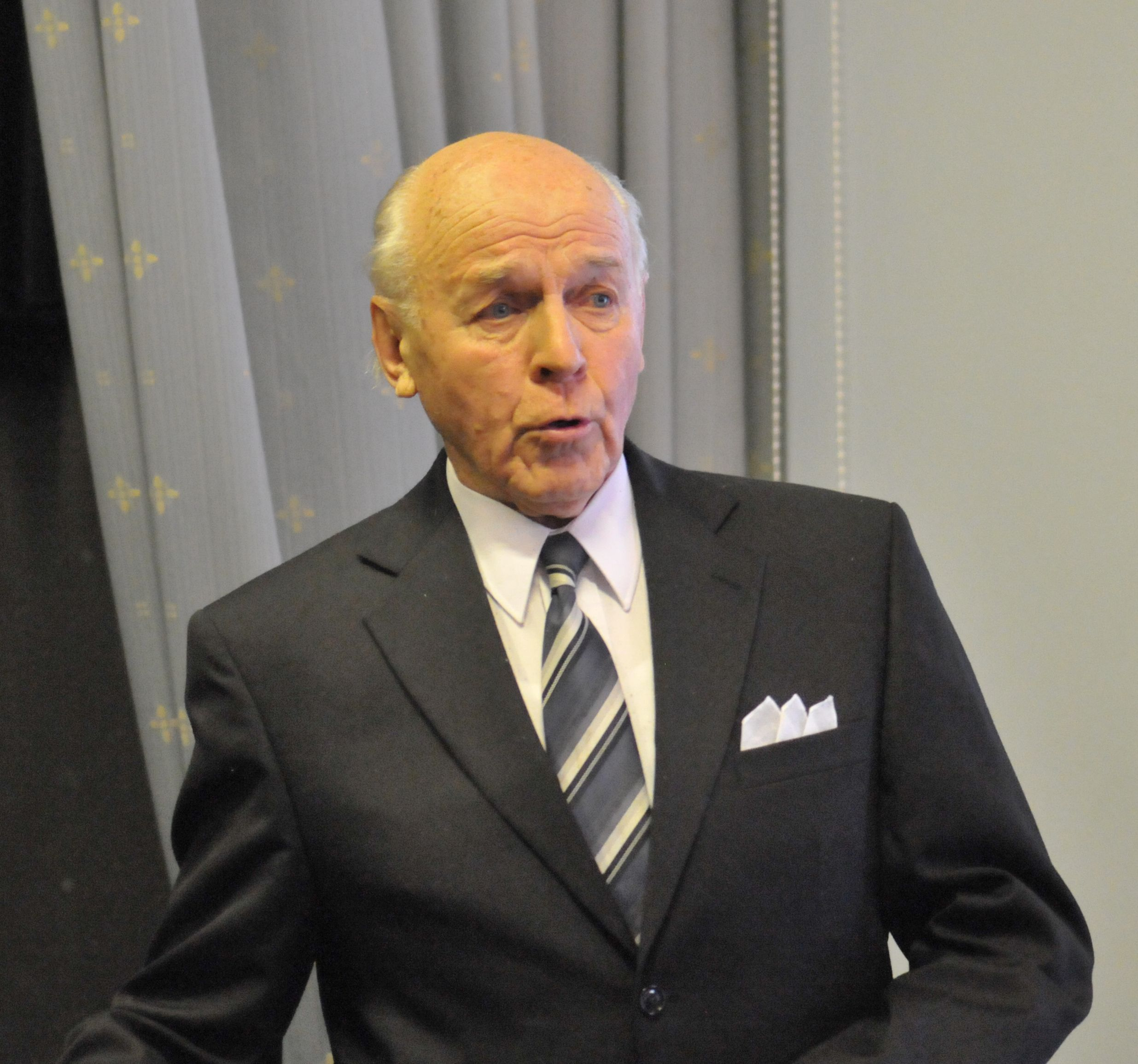 Finnis operasinger Pentti Perksalo